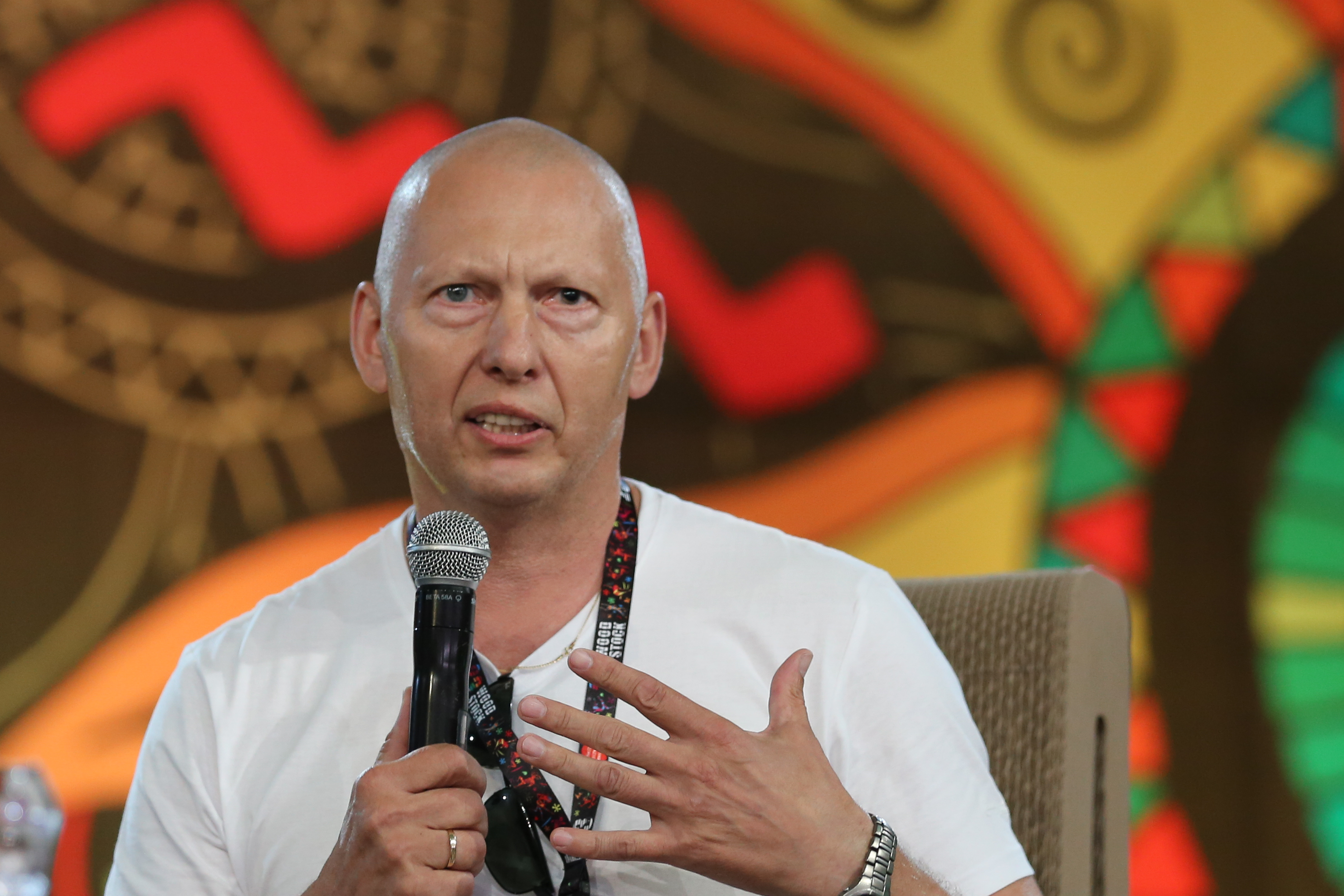 Przystanek Woodstock in 2017.